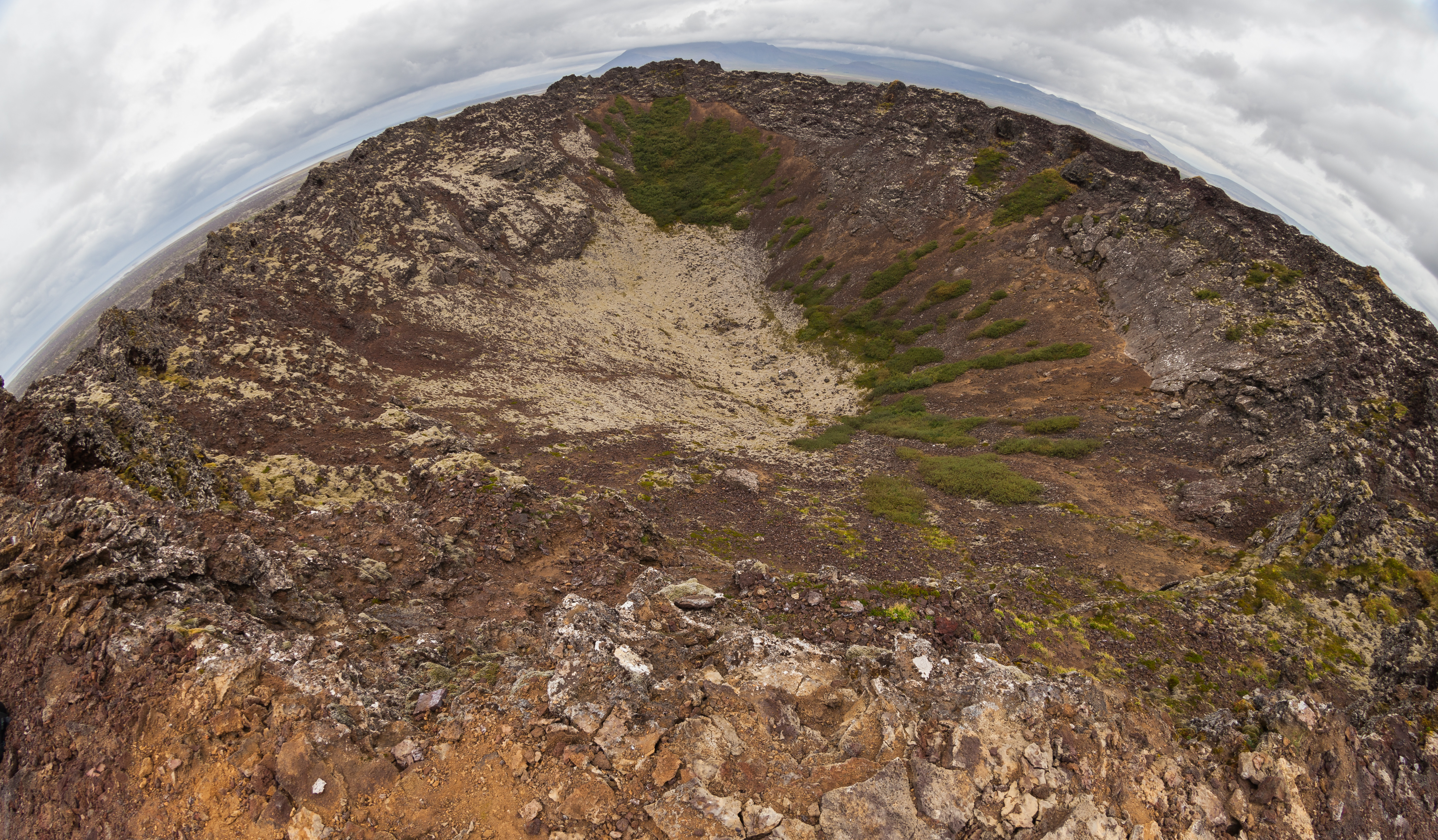 Eldborg crater, Versurland, Iceland